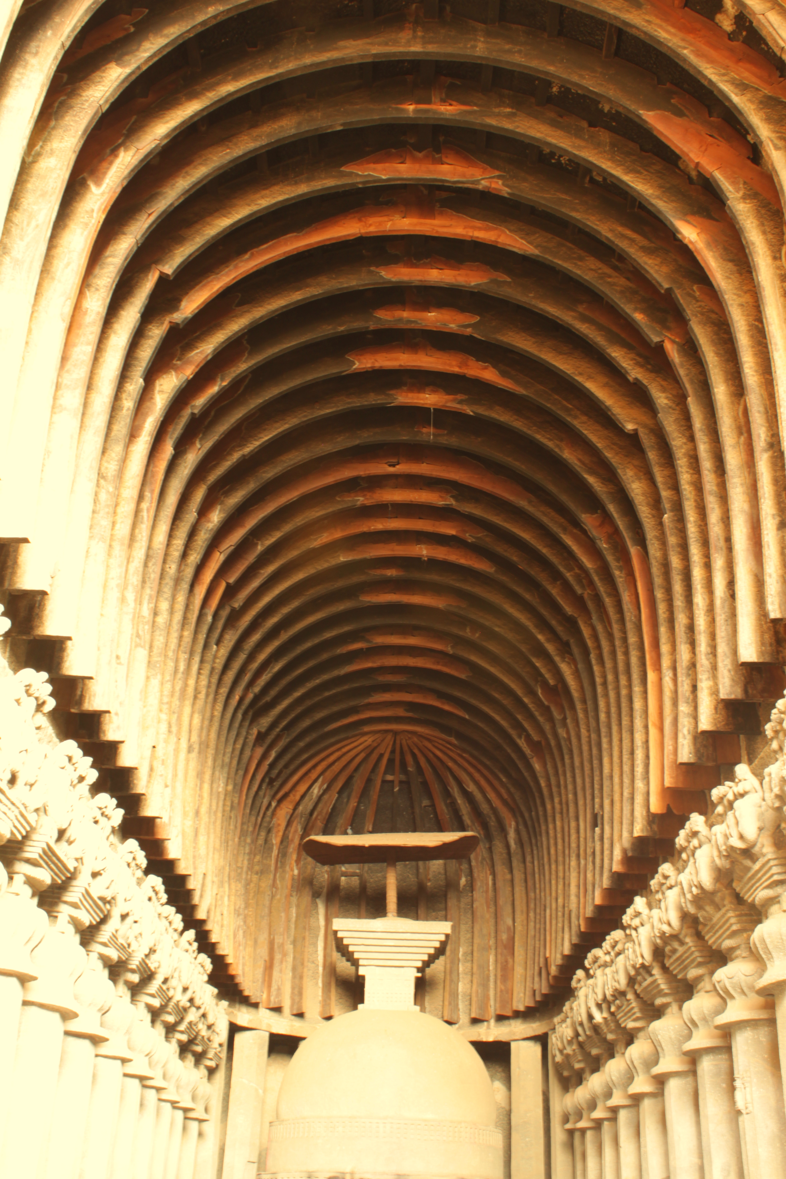 The interiors of the main cave at Karla